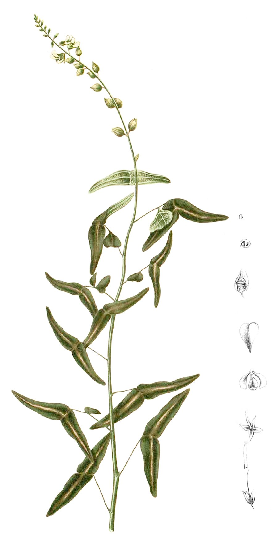 Plate from book